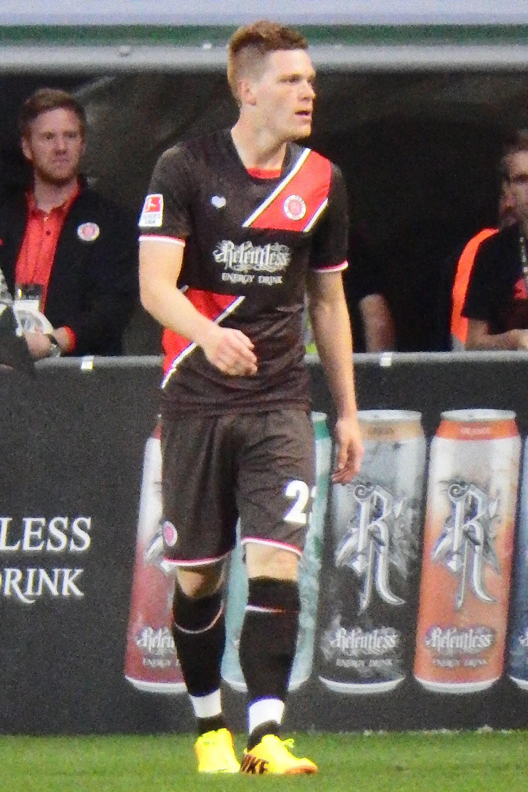 Marcel Halstenberg as Player of FC St. Pauli